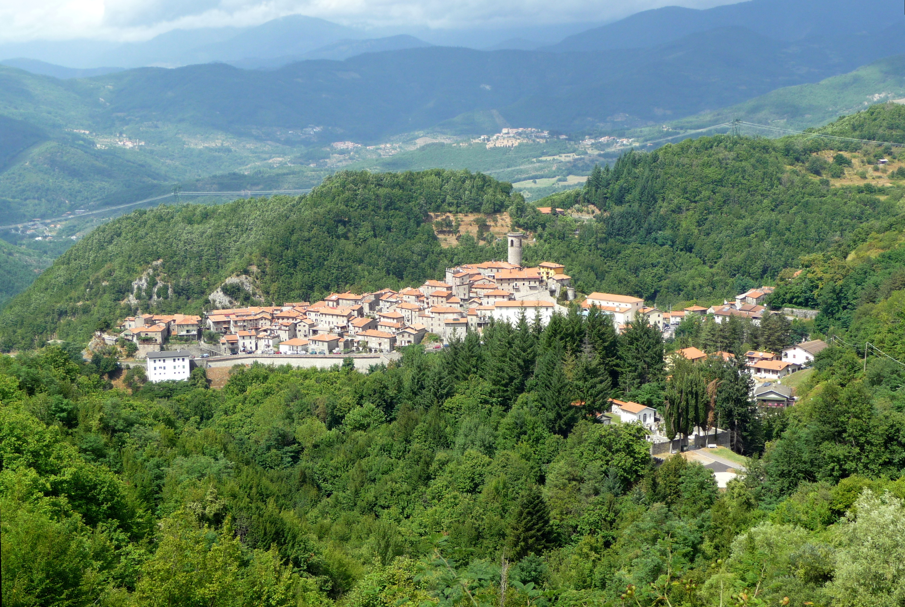 Minucciano, Province Lucca, Tuscany, Italy - Panorama